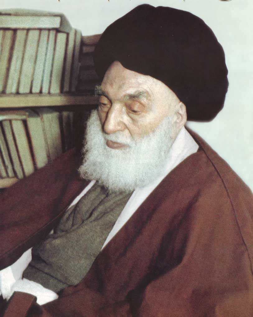 Hossein Borujerdi, circa 1960